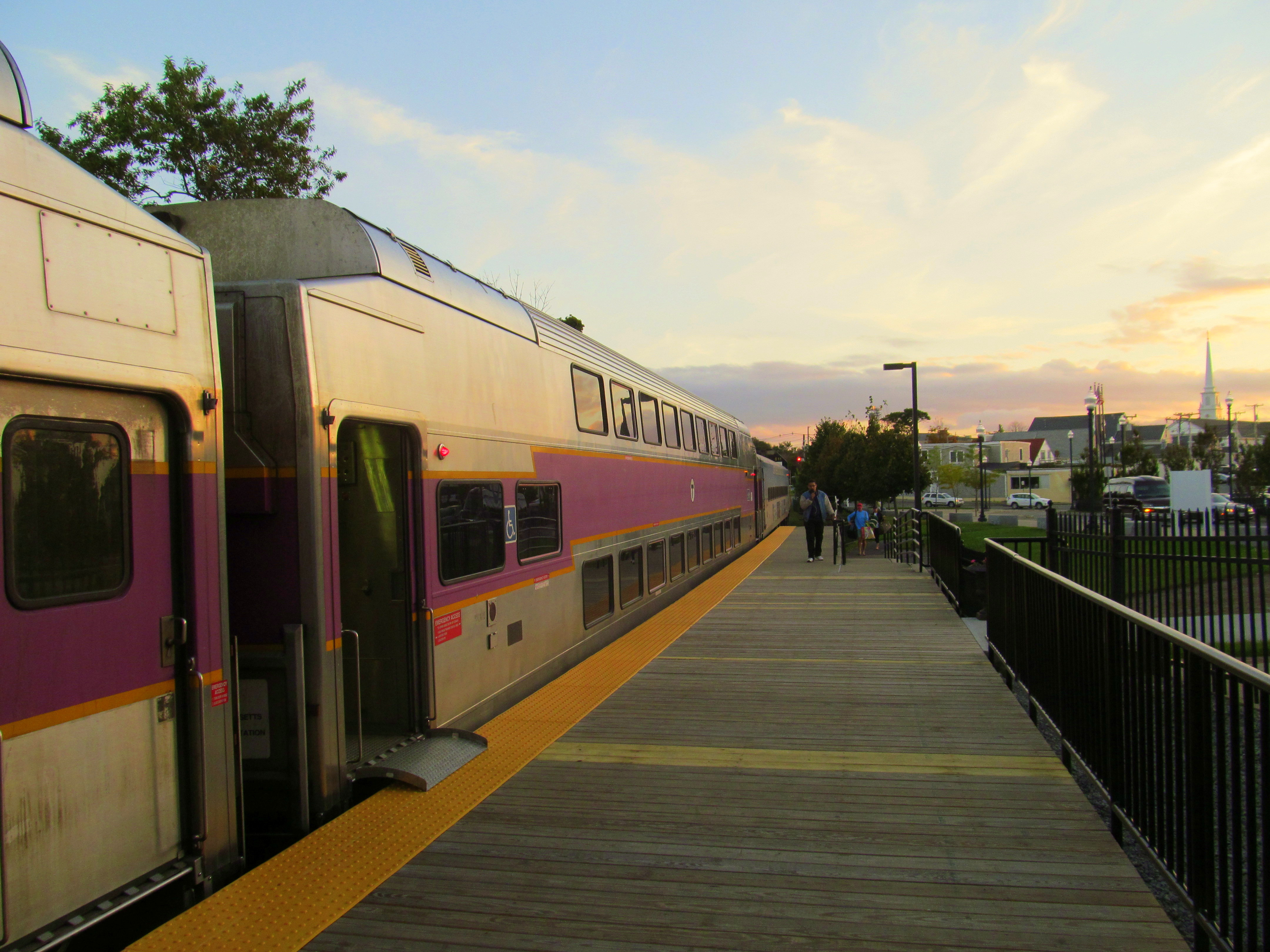 MBTA bilevel cars on the CapeFLYER at Hyannis Transportation Center